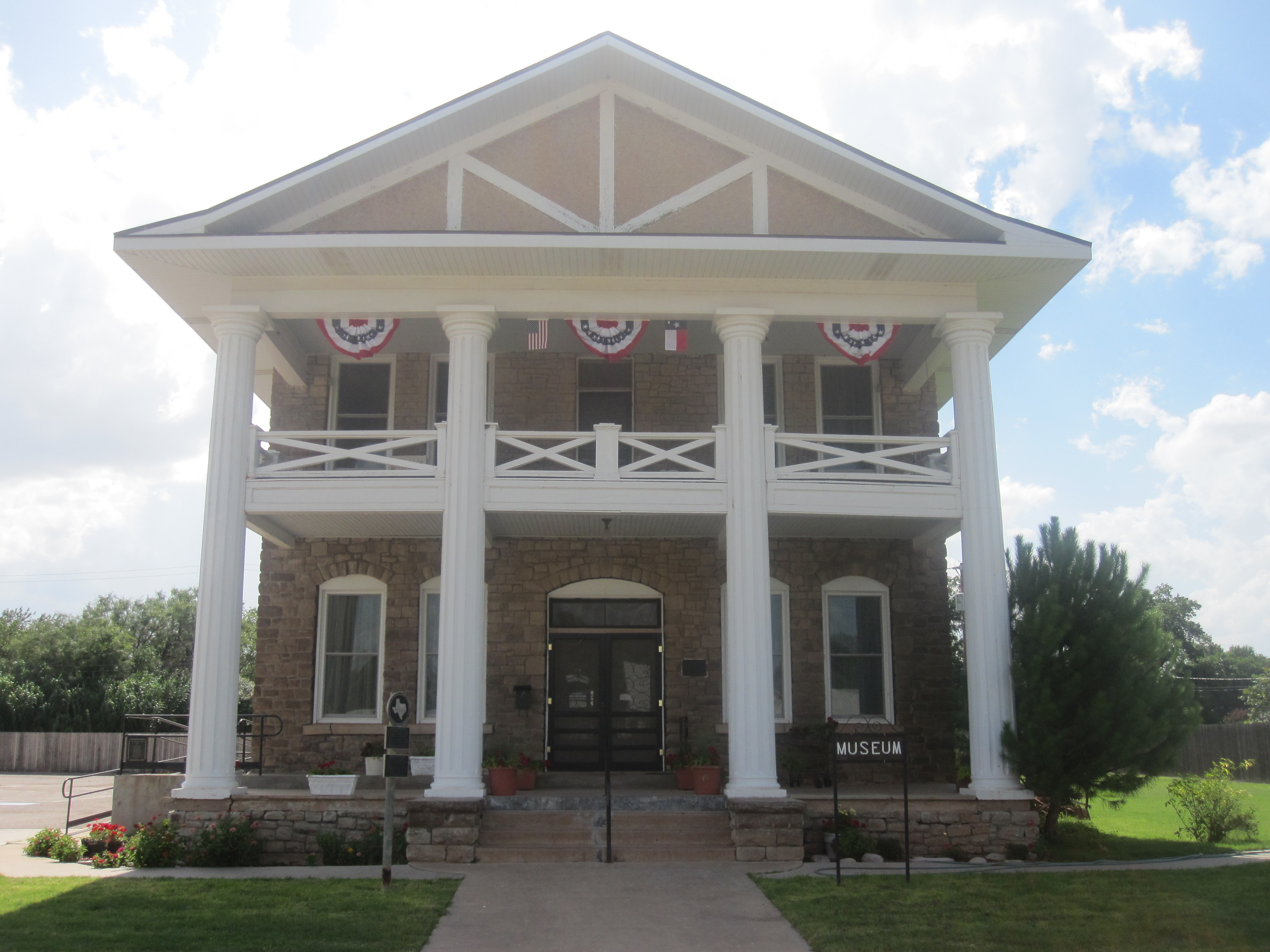 I took photo with Canon camera in Post, TX.